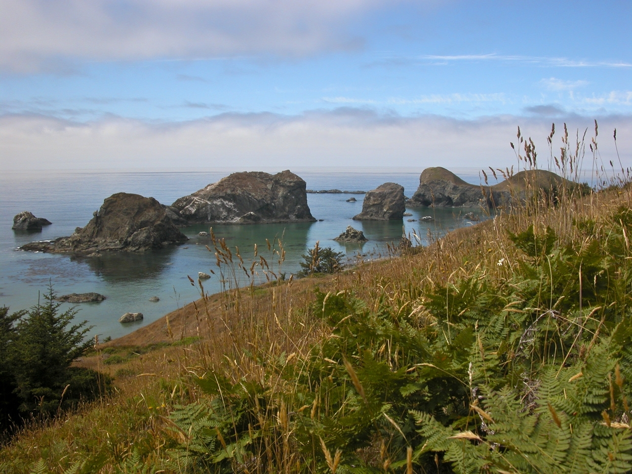 View of seabird colonies from the Crook Point Unit of Oregon Islands National Wildlife Refuge, OR Photo: Roy Lowe, USFWS